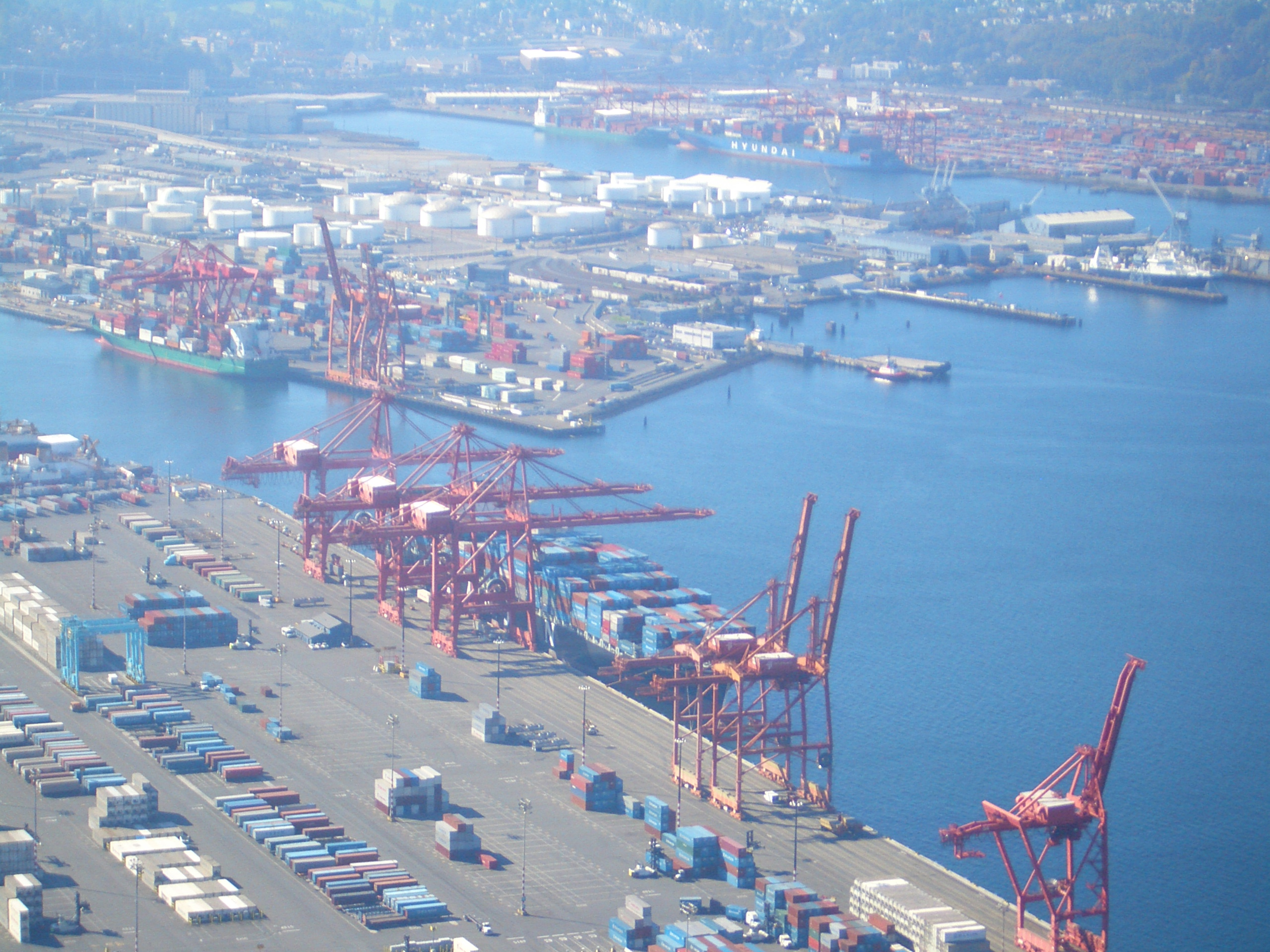 Harbor Island (container terminal) seen from the observation deck of Columbia Center, Seattle.